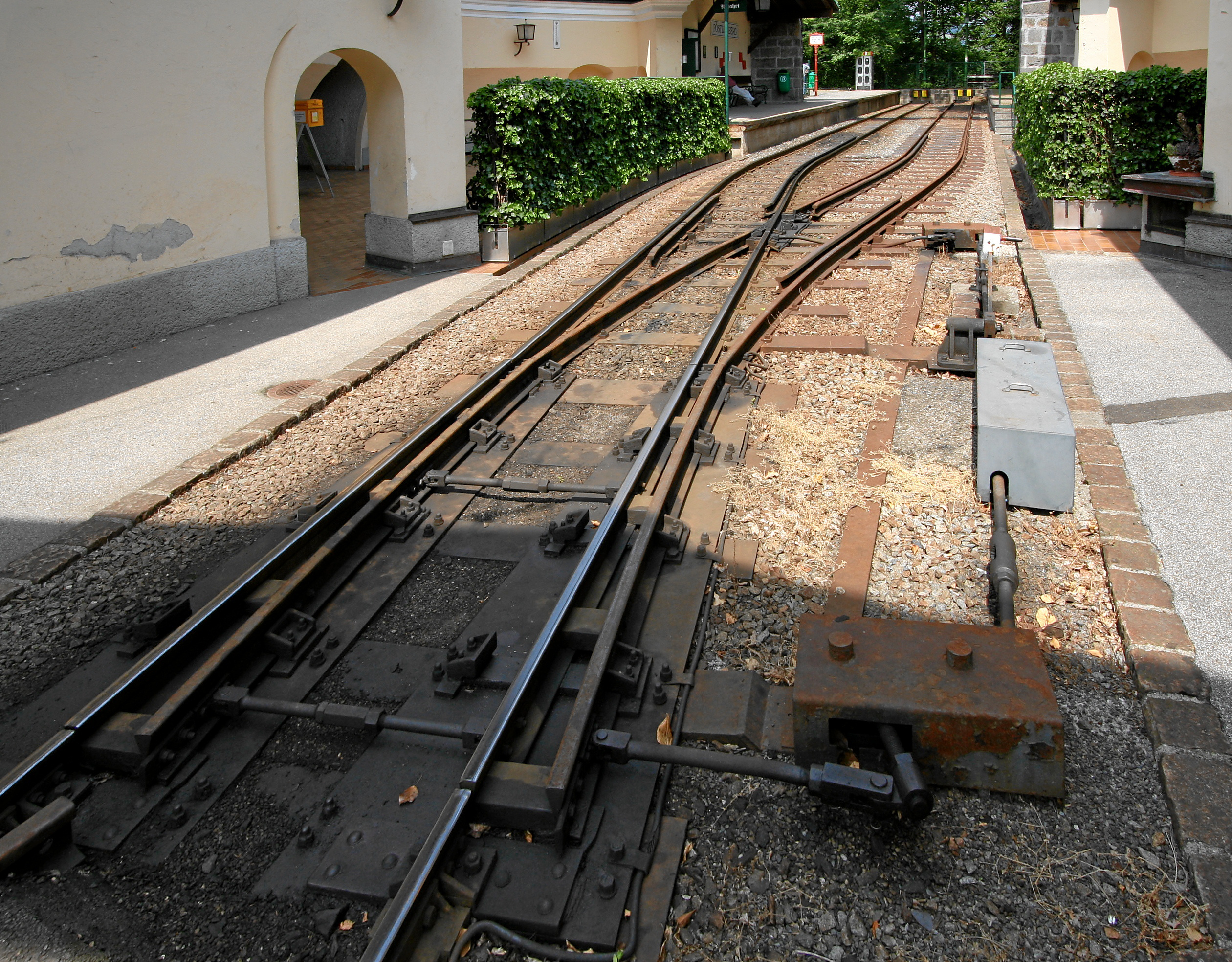 Top station of the Pöstlingbergbahn in Linz